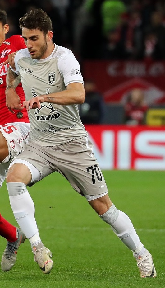 Nikolai Kipiani with FC Rubin Kazan in a game against FC Spartak Moscow.